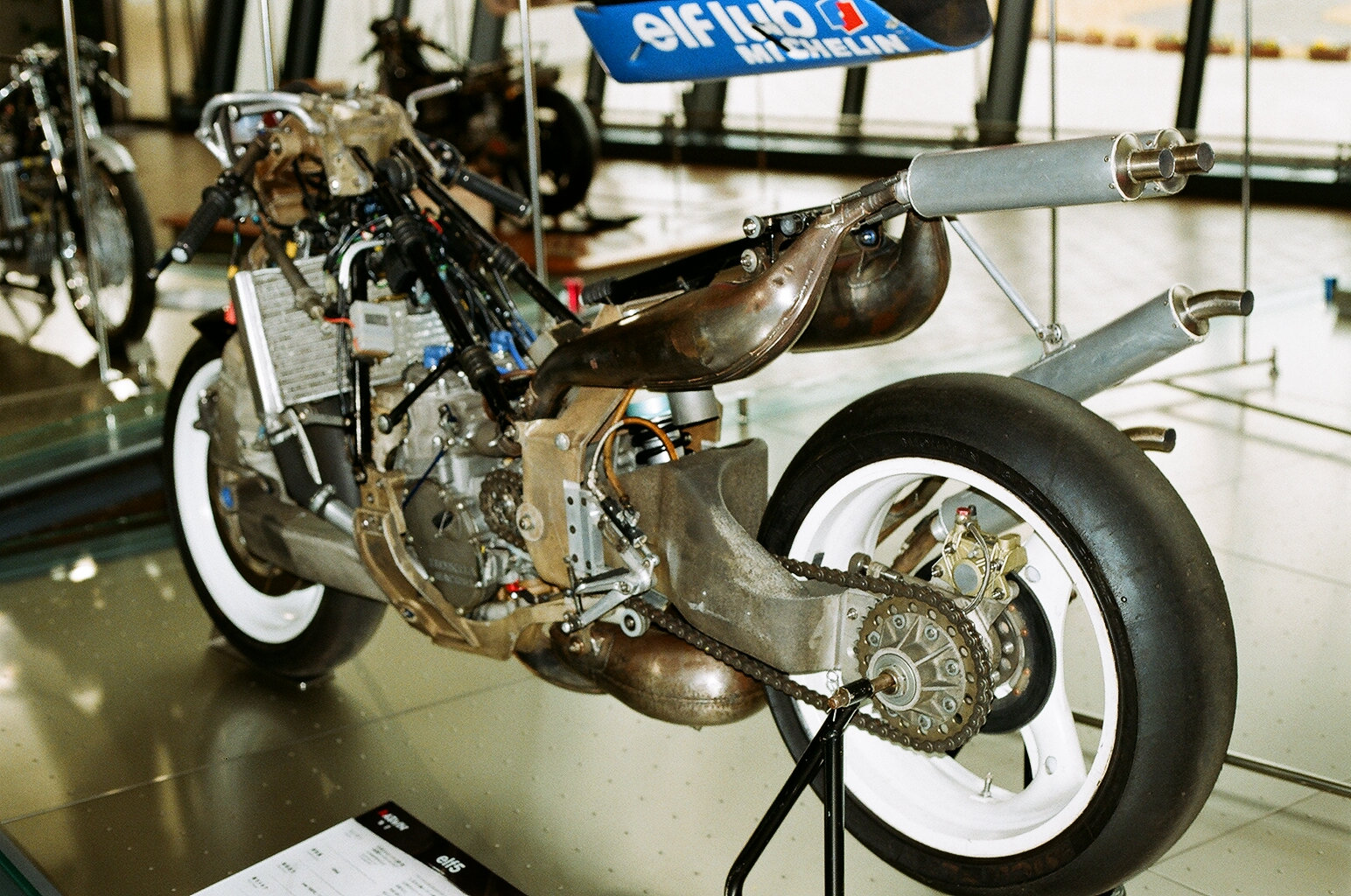 elf5 is displaying in the honda collection hall.